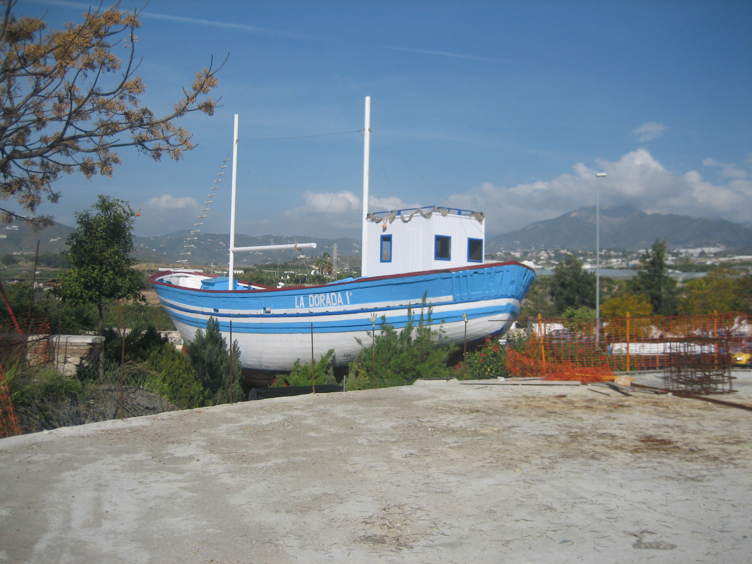 La Dorada, Chanquete's ship, Nerja (Malaga, Spain)